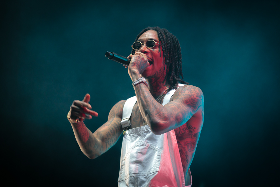 Wiz Khalifa the main stage at Stavernfestivalen. The concert was part of Stavernfestivalen and took place on 12. July 2018 in Stavern. Lineup:Wiz Khalifa (rap)